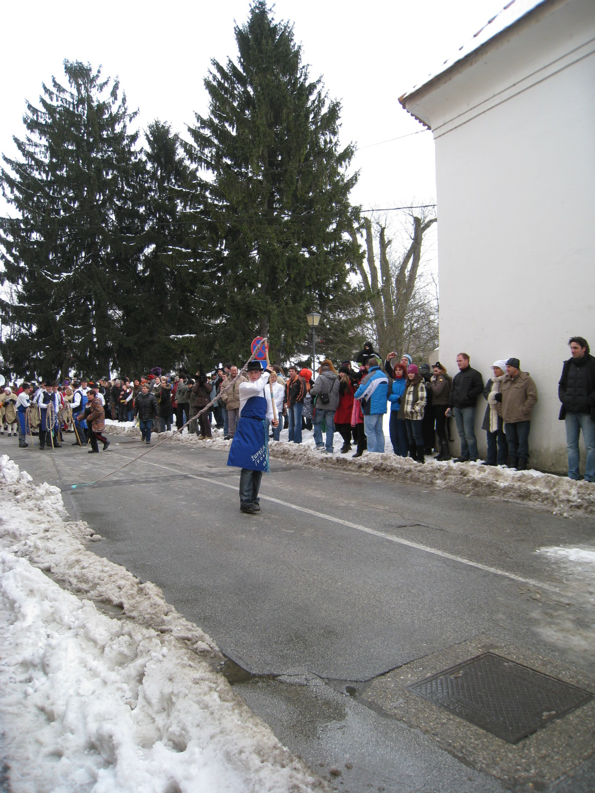 Whipping the winter air at Kurentovanje festival in Ptuj. Ošvrknenje zimskega zraka na Kurentovanju na Ptuju.